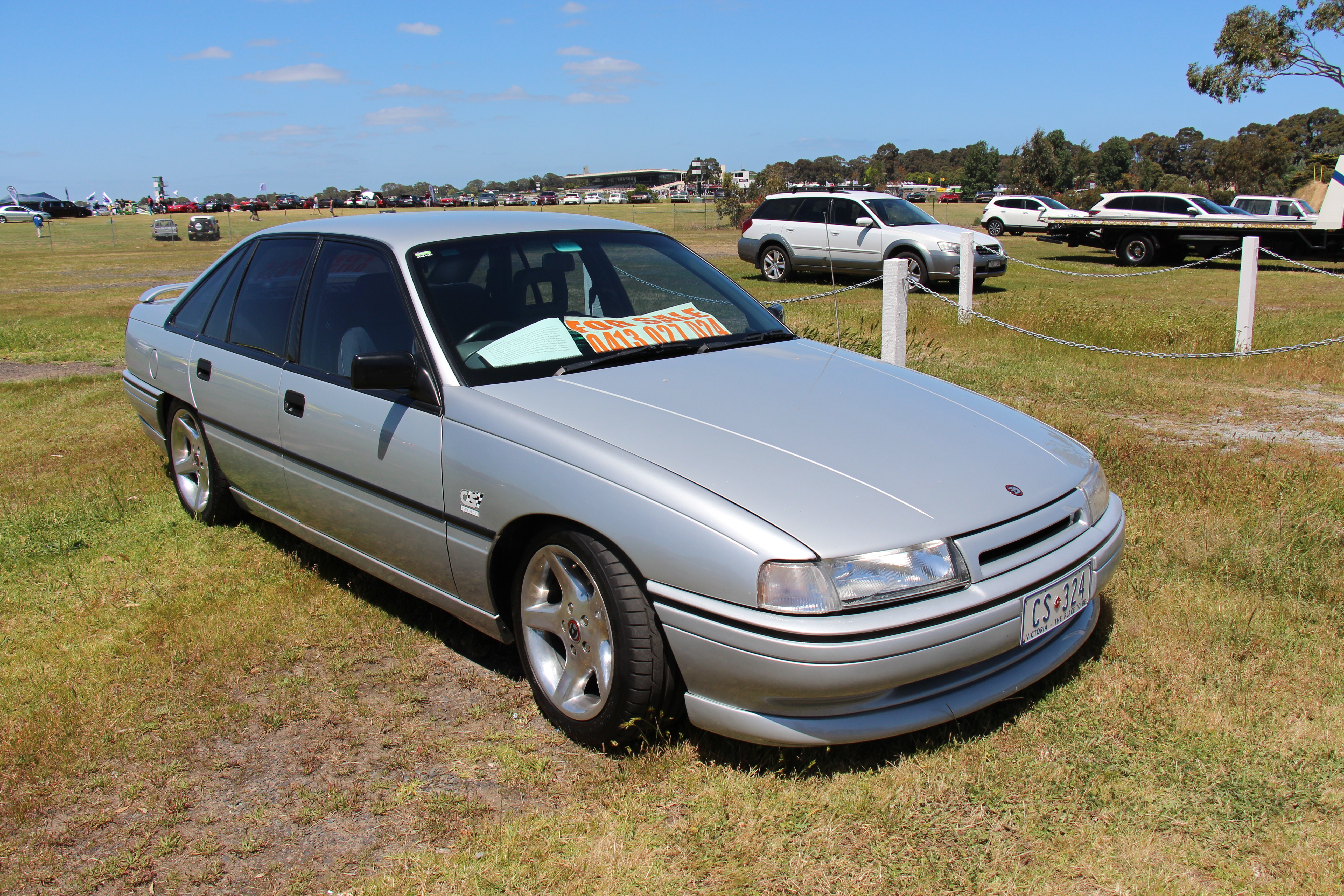 06/1991 VN HSV Clubsport